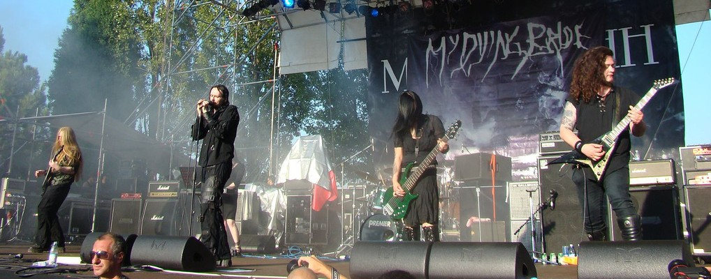 My Dying Bride. Cropped on band